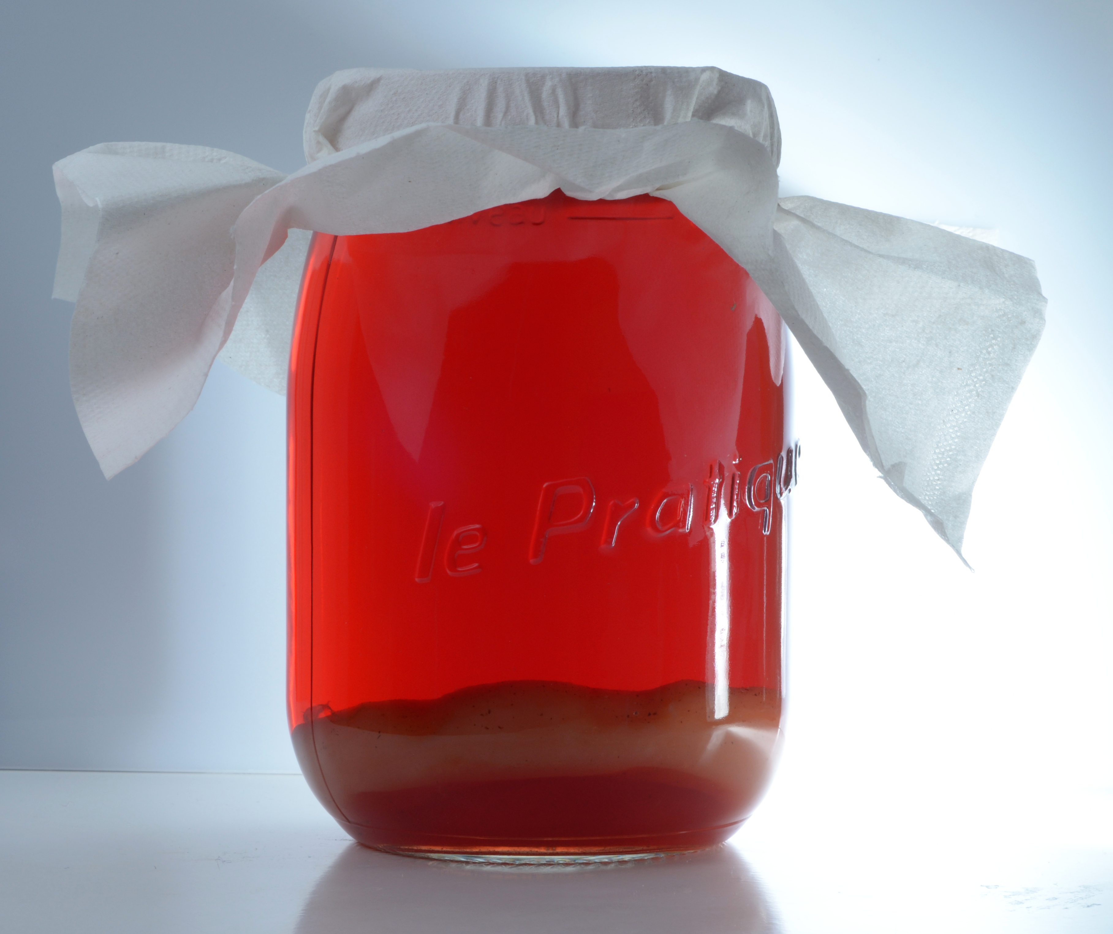 Young Kombucha, with Tea and Fruit Tea. At the beginning the kombucha is lying on the bottom.